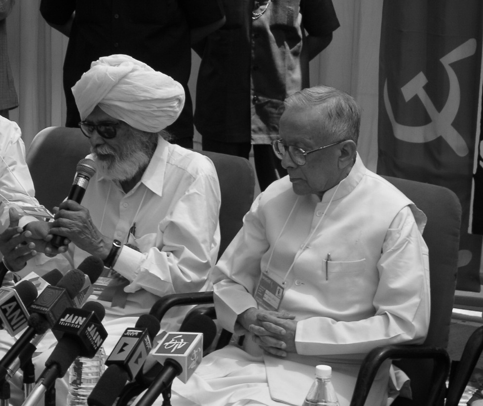 Harkishan Singh Surjeet and Jyoti Basu. Cropped from File:Cpmcongress1316.JPG